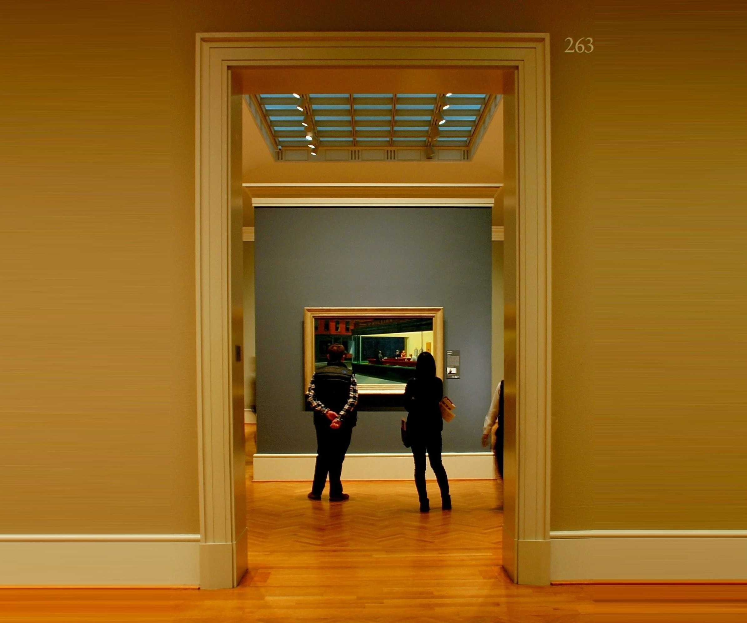 “Nighthawks” in the Art Institute of Chicago